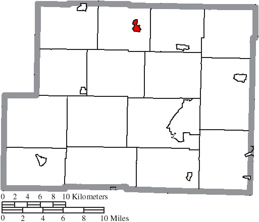 Map of the municipal and township boundaries of Harrison County, Ohio, United States, as of the 2000 census, with the location of the village of Scio highlighted. Township borders are shown only in unincorporated areas in order to differentiate incorporated and unincorporated areas more clearly.